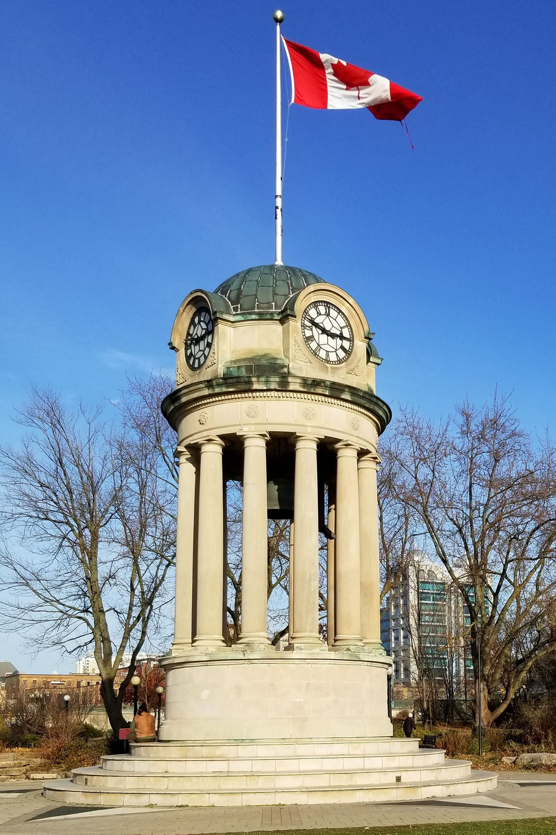 The old Kitchener City Hall was demolished and clock tower was placed in Victoria Park in 1973